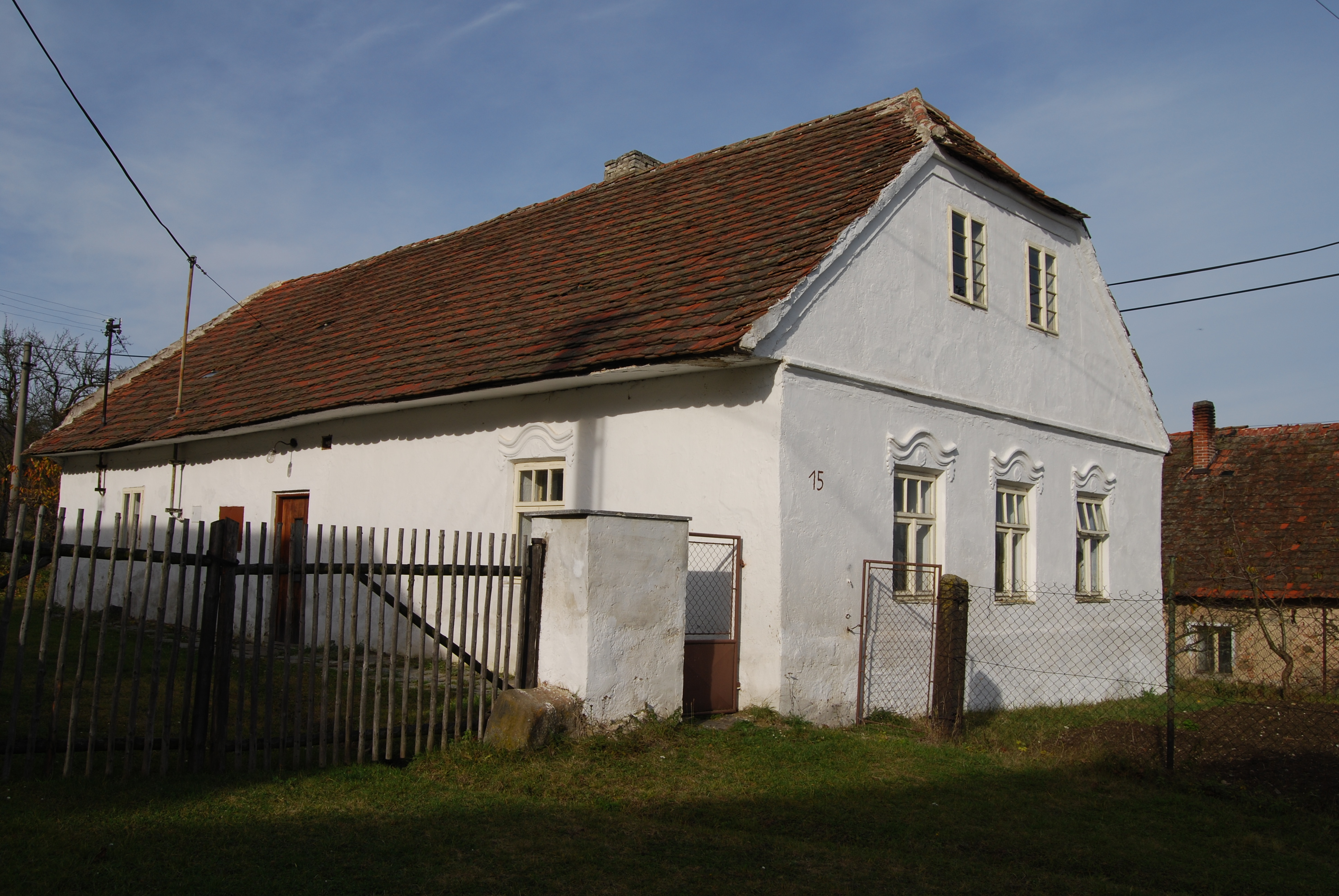 Volenice village in Příbram District, Czech Republic.